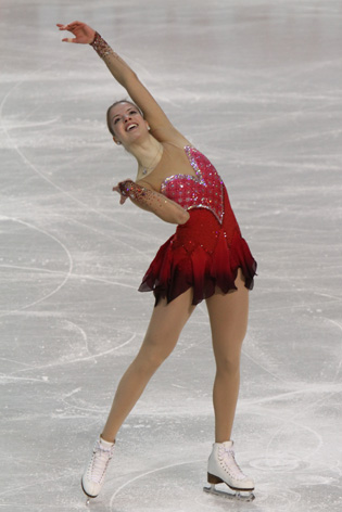 Carolina Kostner at the 2010 European Figure Skating Championships.